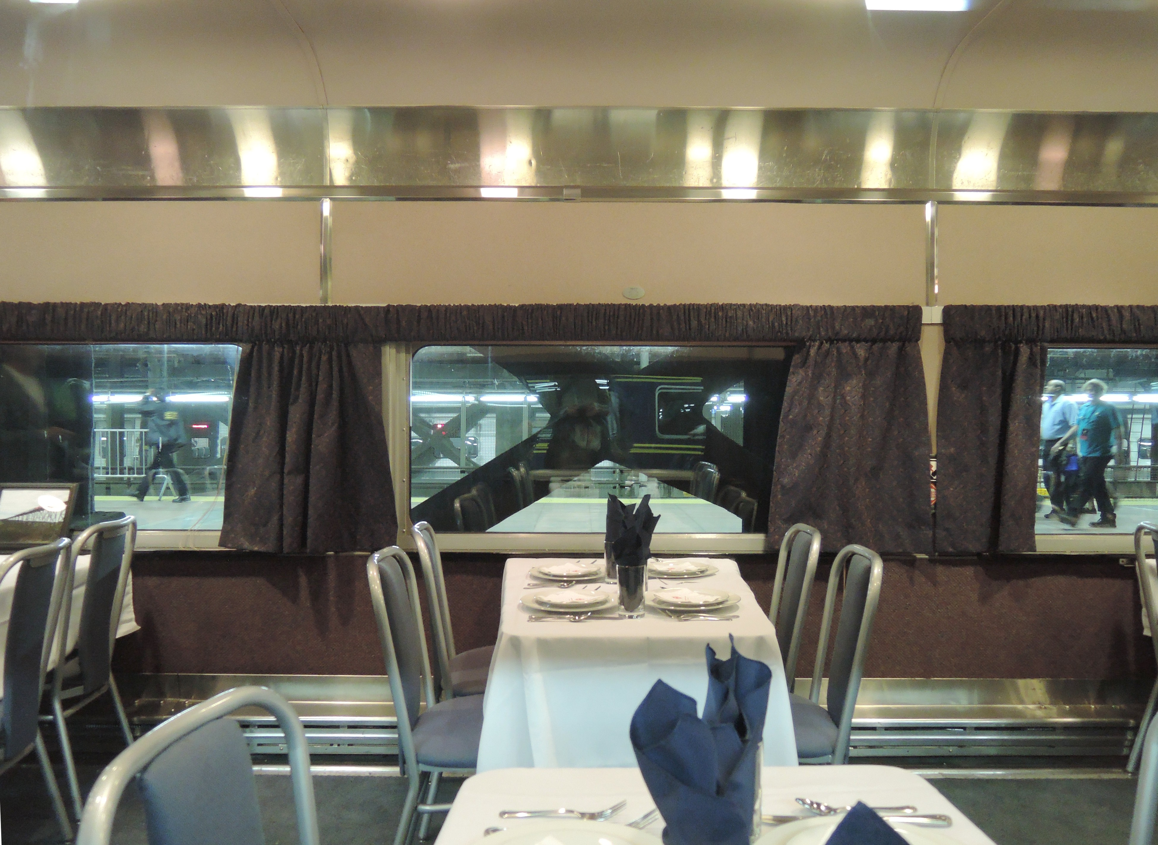 Looking into Dining car.